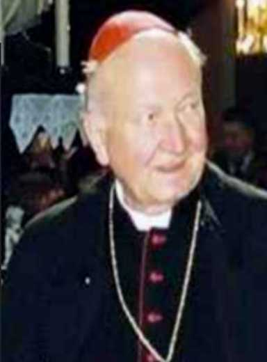 Marian Jaworski, Roman Catholic cardinal (one of two Vatican cardinals from Ukraine) Author of photograph: Anna Gordijewska Source URL